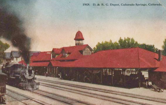 Postcard photo of the Denver and Rio Grande railroad depot in Colorado Springs, Colorado.